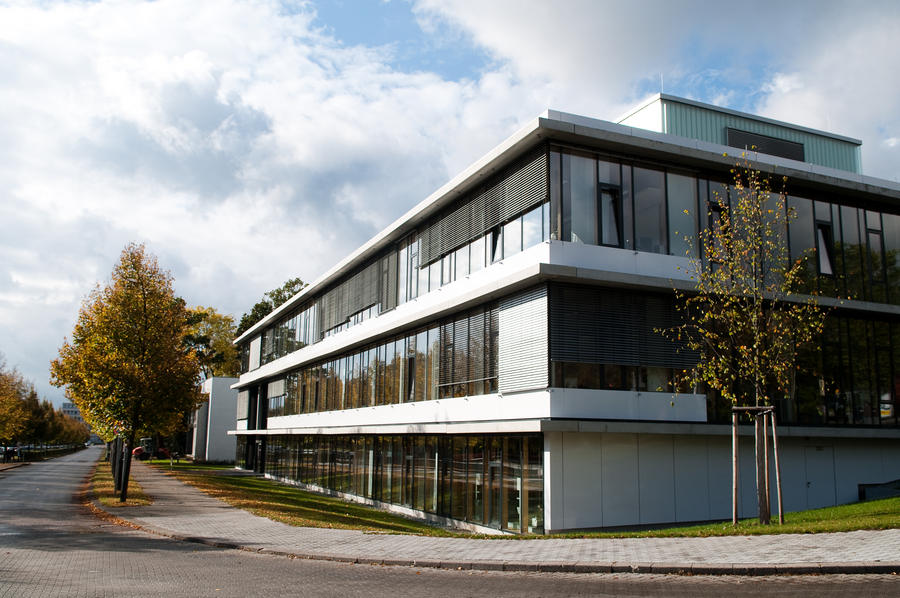 Picture of the Institute of Food Technology and Biotechnology from the outside